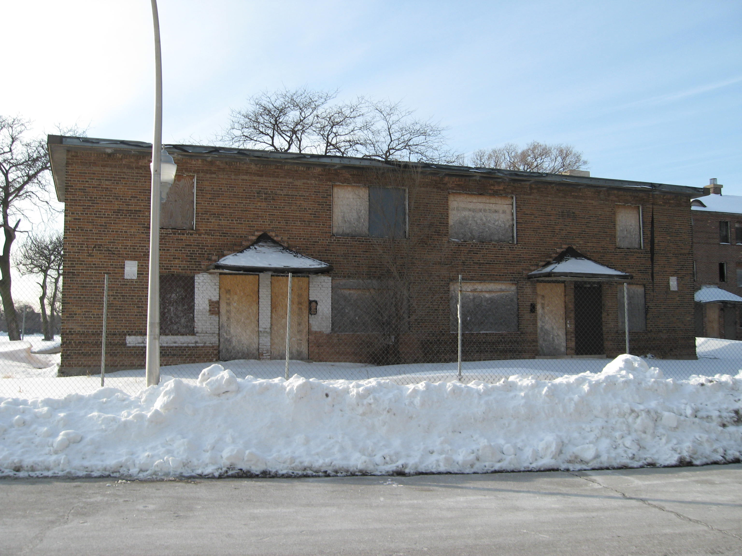 in Chicago